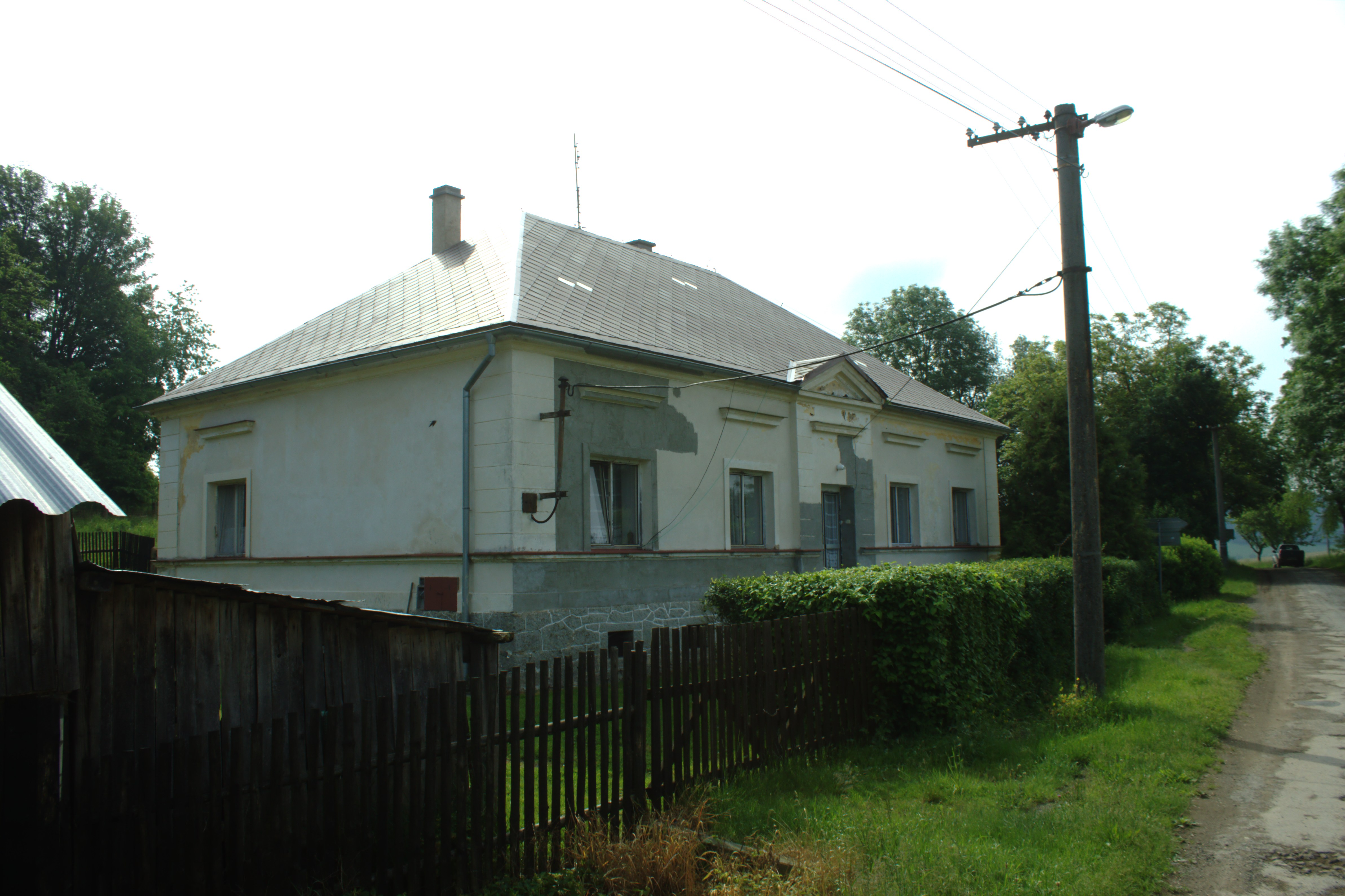 Former school building in the village of Holubín near Mariánské Lázně